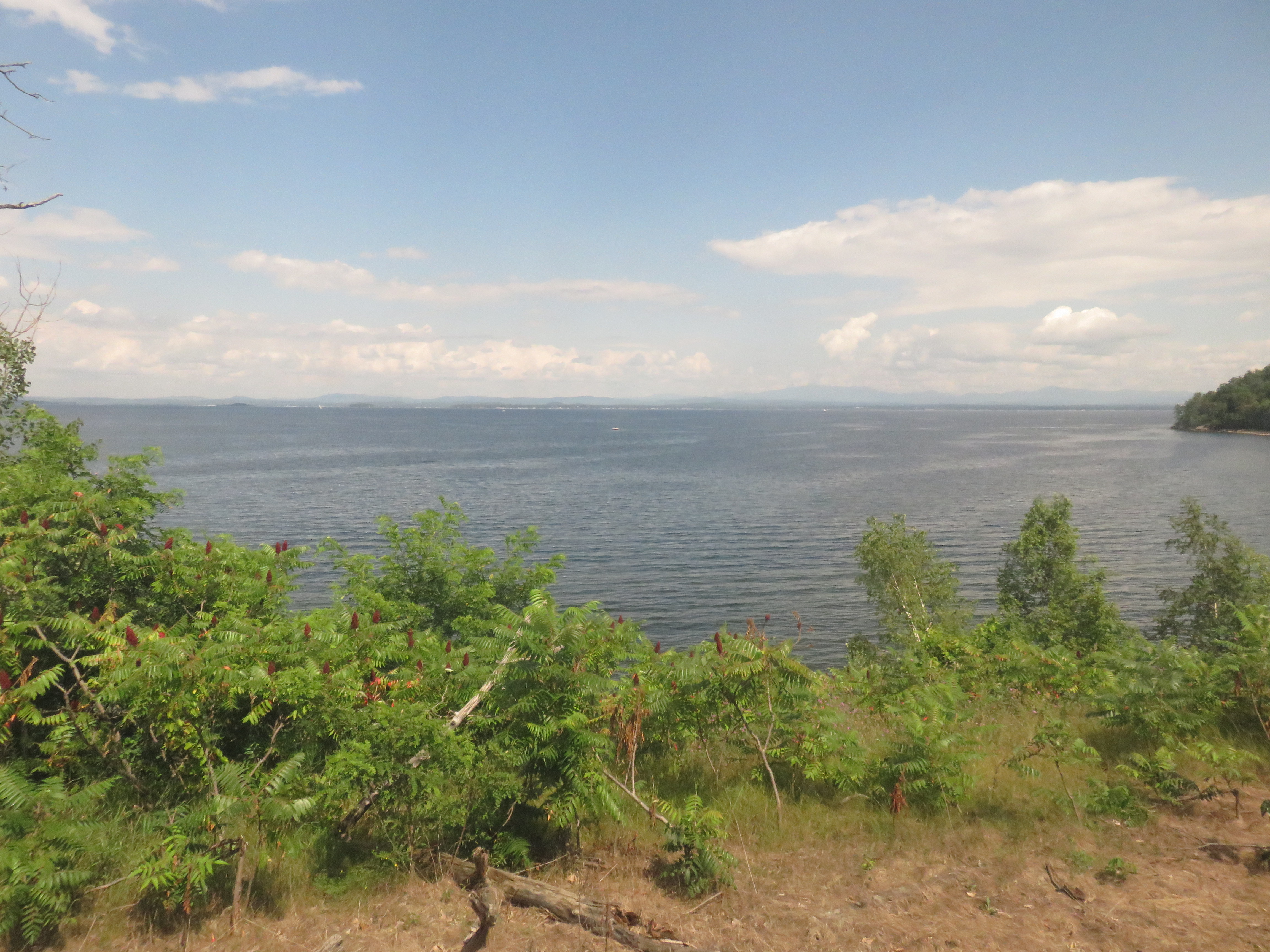 Lake Champlain near Port Kent, New York from the Adirondack Amtrak train in 2017